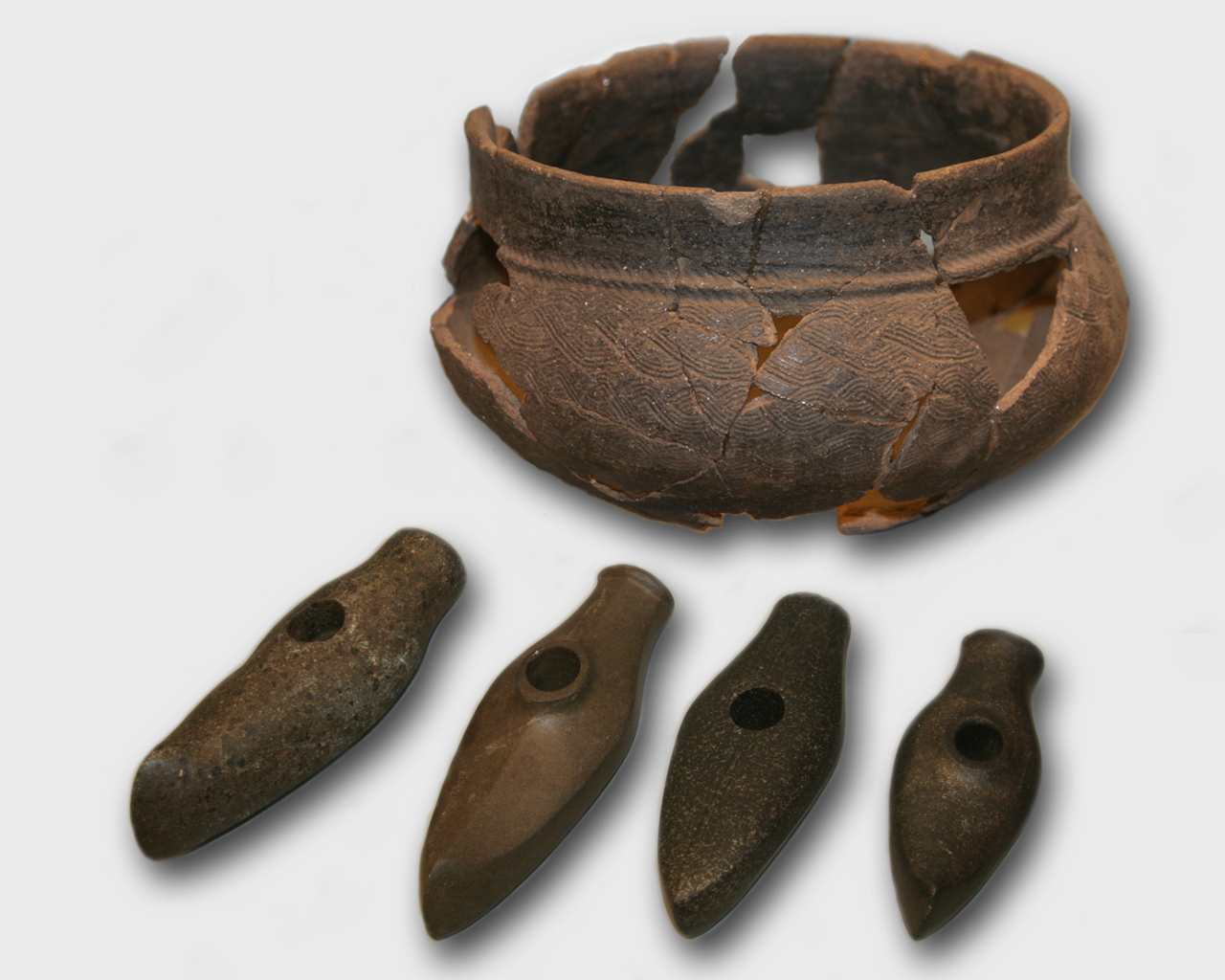 Photo of the Cord Ware, Boat Axe Culture pottery, stone axes, at The Estonian History Museum